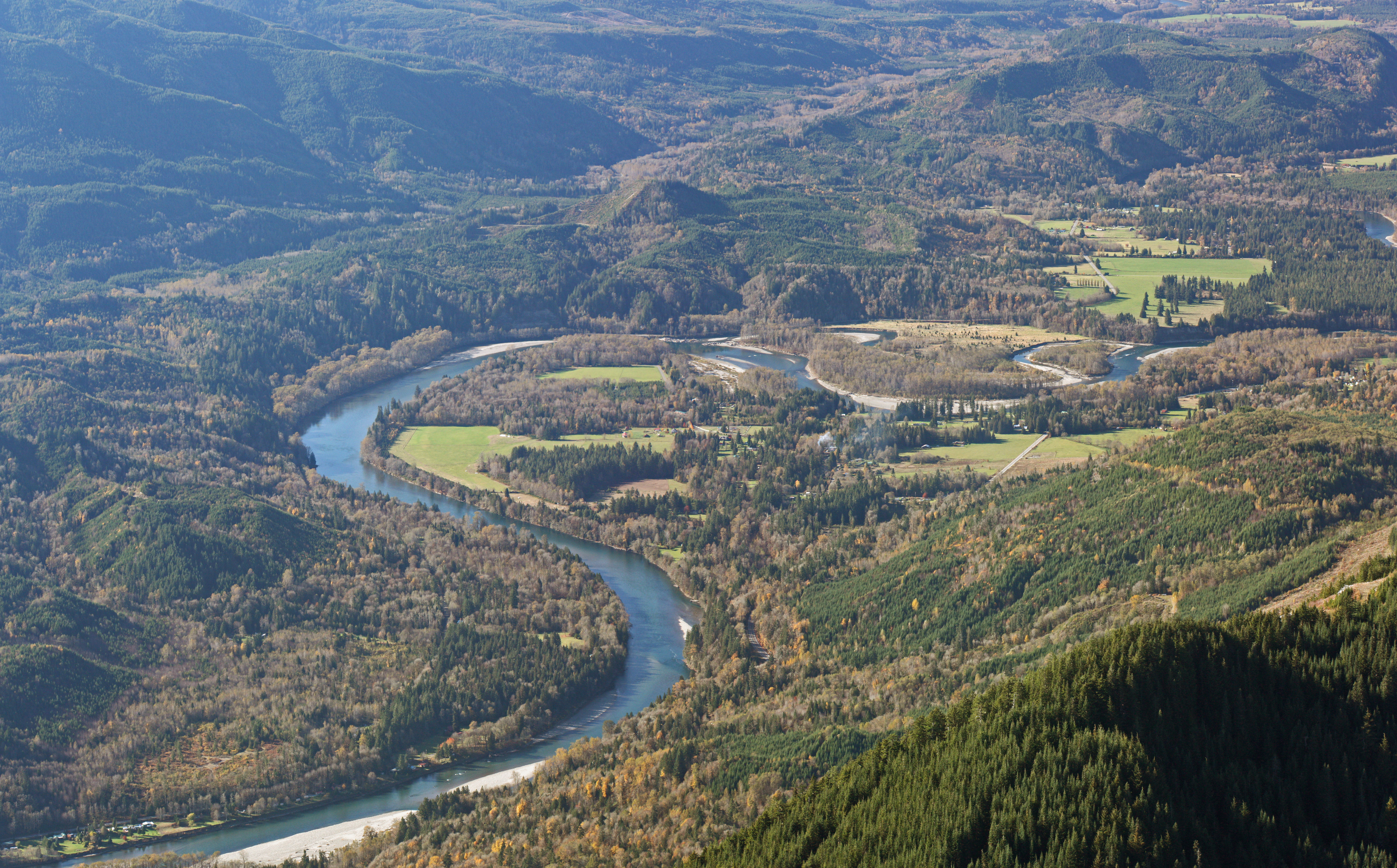 Skagit River near Van Horn (unincorporated community, right center); Washington State Route 20 (right center); Concrete-Sauk Valley Road (upper right on far side of river, also lower left); Jackman Ridge (lower right)); river meanders Stitched panorama: Please see "Other versions" for source images. This image was created with Hugin. Viewpoint location: Sauk Mountain Trail #613, Mount Baker-Snoqualmie National Forest Viewpoint elevation: 1670 meter (5481 ft) View direction: 262° Location source: Garmin GPSmap 60CSx Location Datum: WGS84